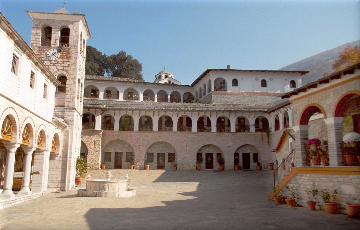 Monastery Ikosifinissa, Pangeaon, Kavala, Greece